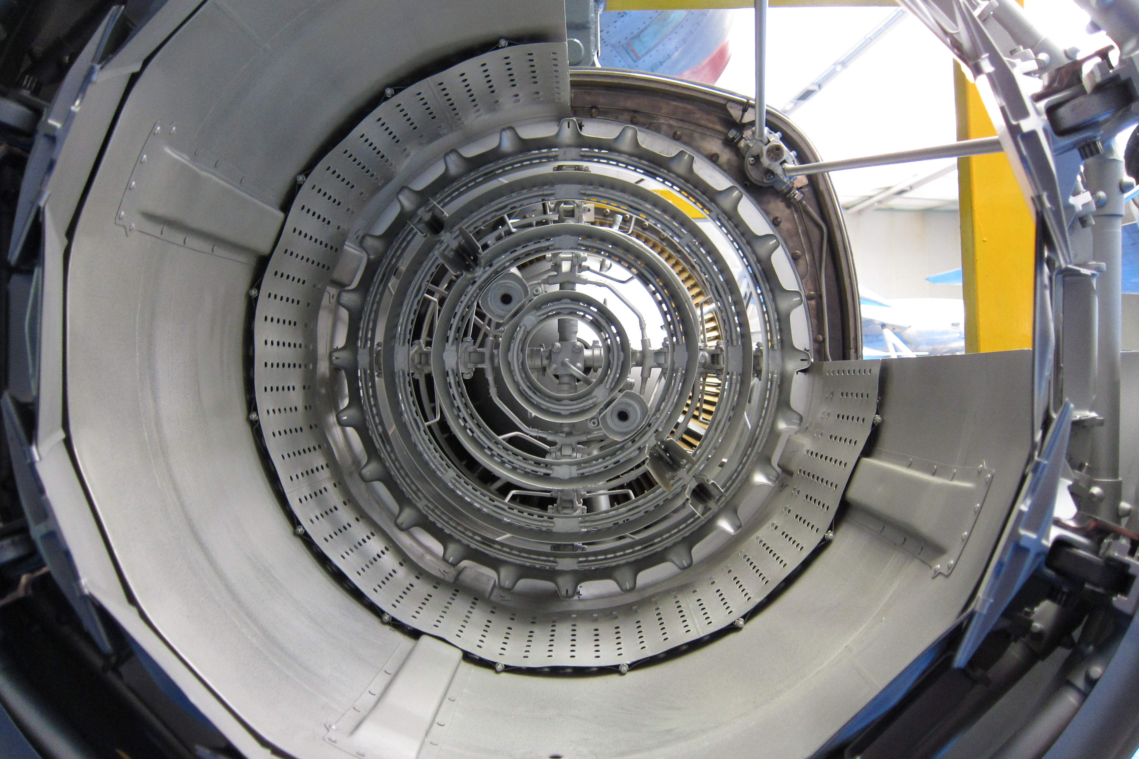 The rear part of a sectioned Rolls-Royce Turboméca Adour turbofan displayed at the Musée de l’Air in Paris, France. Air flow is from the background of the photo towards the viewer. The afterburner with its four combustion rings is clearly seen at the center. During cruise flight, no combustion takes place there and the afterburner generates pressure loss without an increase in gas energy. Elements of the variable geometry nozzle can be seen at the edges of the photo.